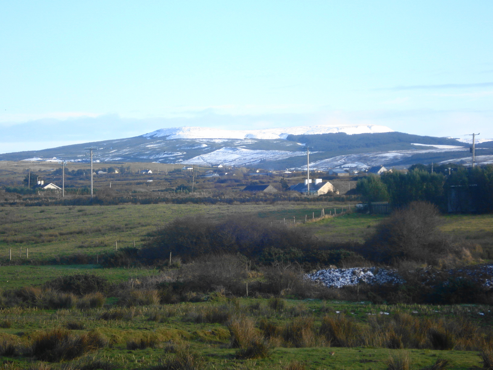 Mount Callan (Slievecallan) in a wintery dress in january 2010